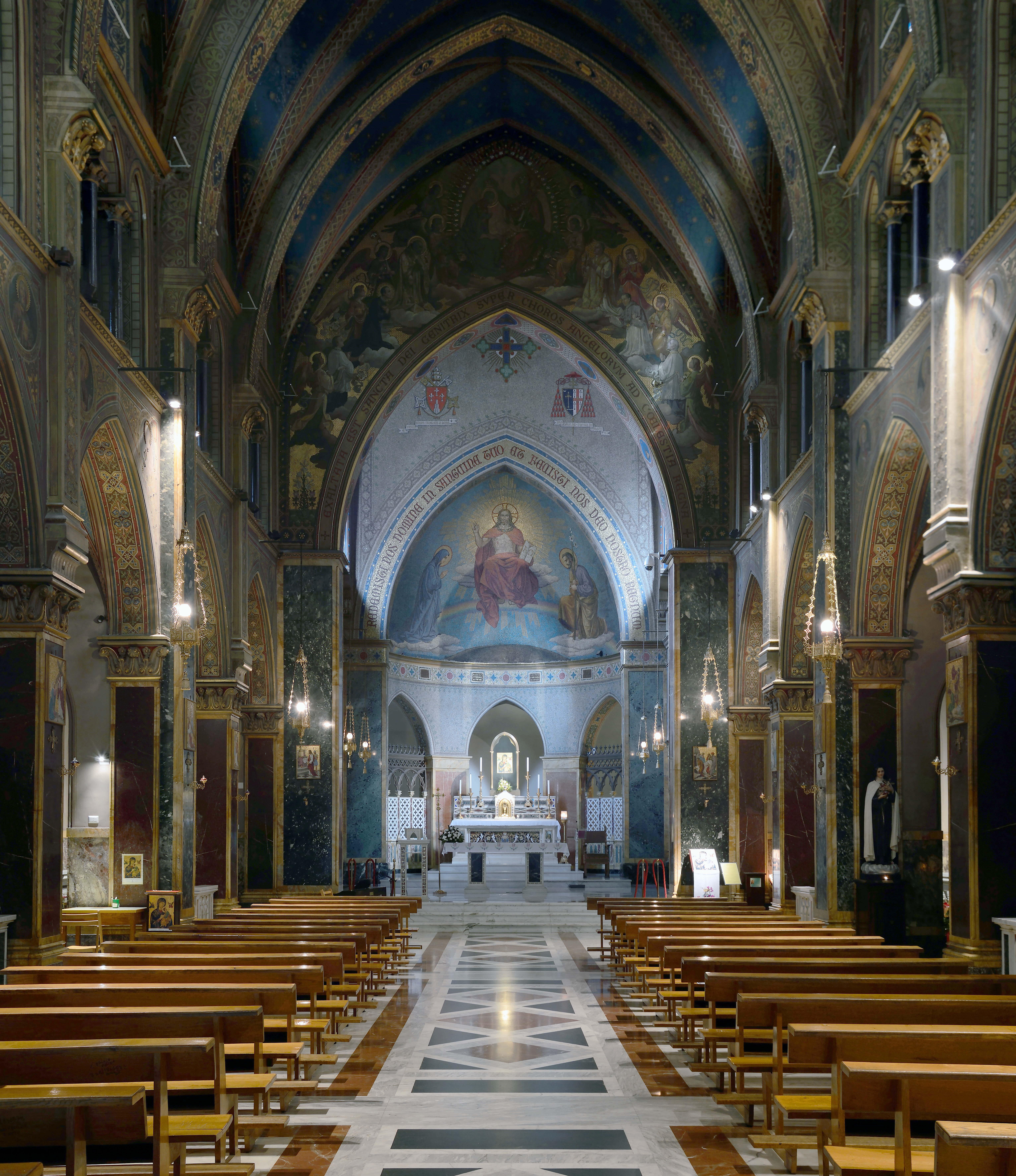 Church of St. Alphonsus Liguori, Rome